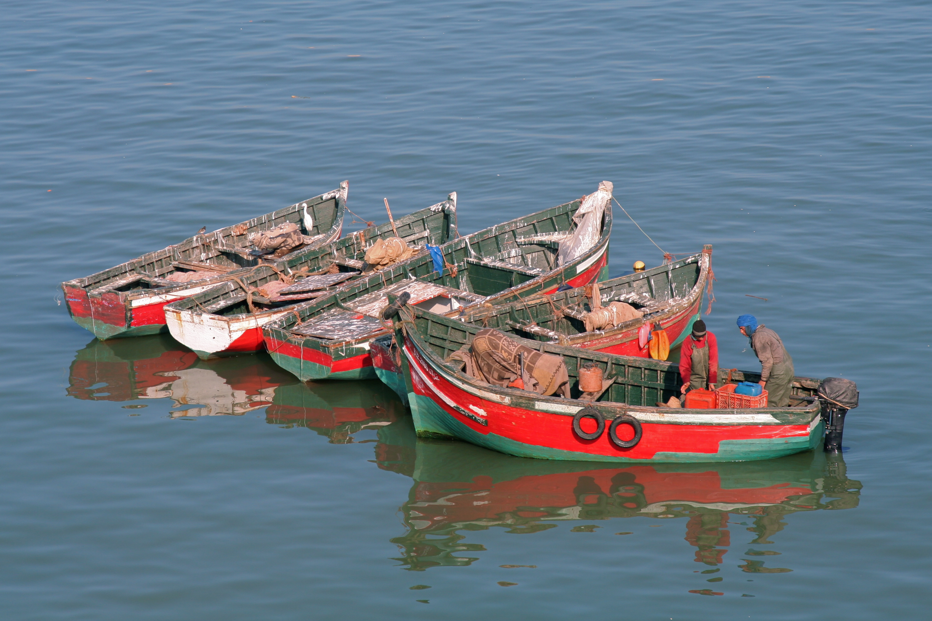 This is an image with the theme "Africa on the Move or Transport" from: Morocco